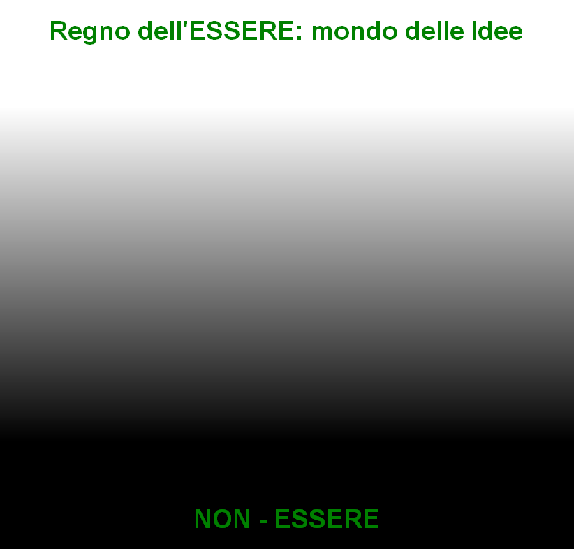 Being according to Plato (hierarchy)